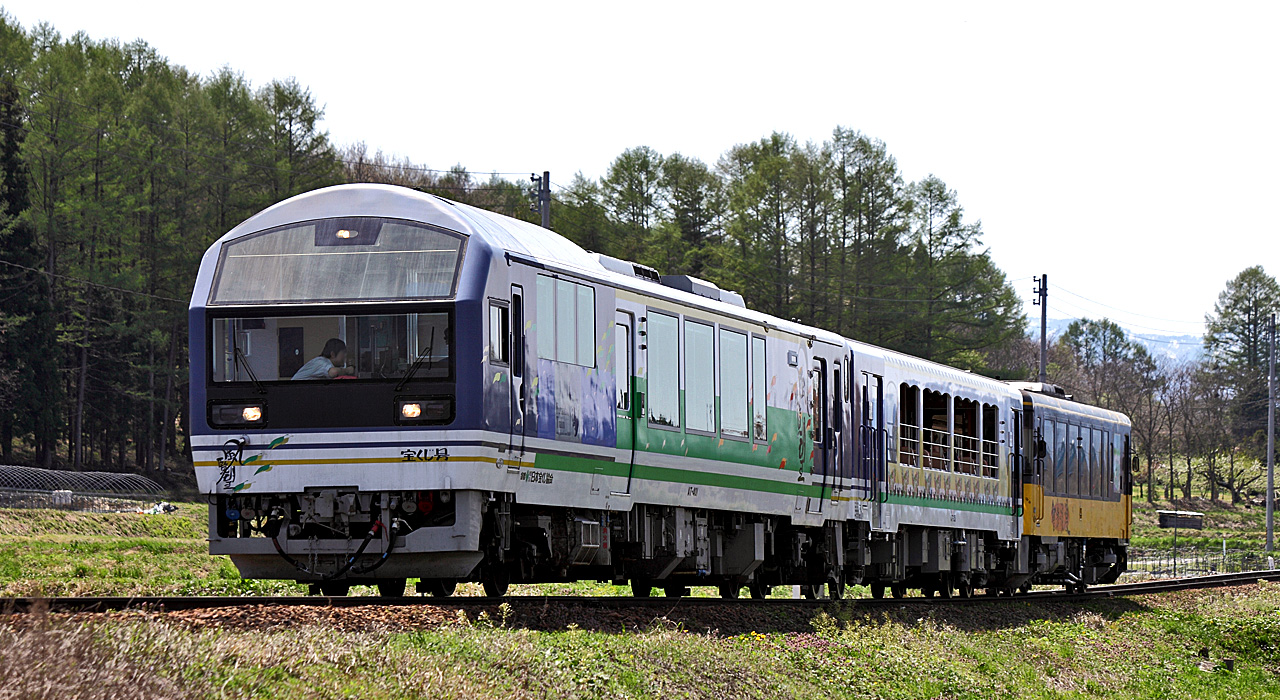 Aizu Railway Oza-Toro-Tembo Train (Type AT-400 + AT-350 + AT-100 DMU)